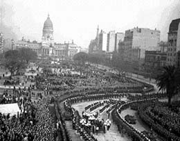 Funeral cortège for Argentine First Lady Eva Perón along Congressional Plaza. Buenos Aires, Argentina.